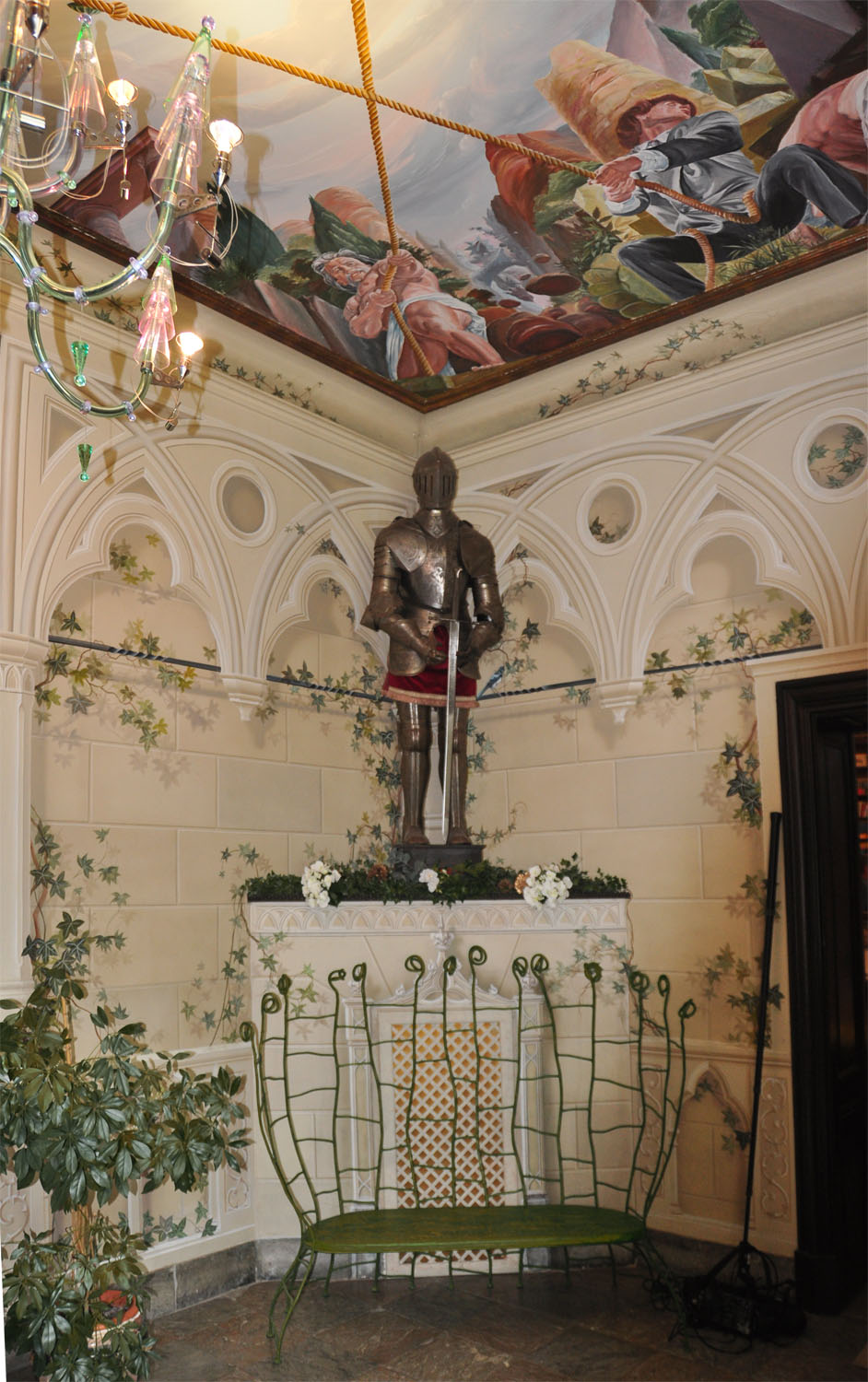 Entrance to the library at Schloss Thal in Kettenis, Eupen, Belgium. Example for architectural Trompe l'oeil.